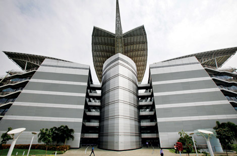 TCS siruseri